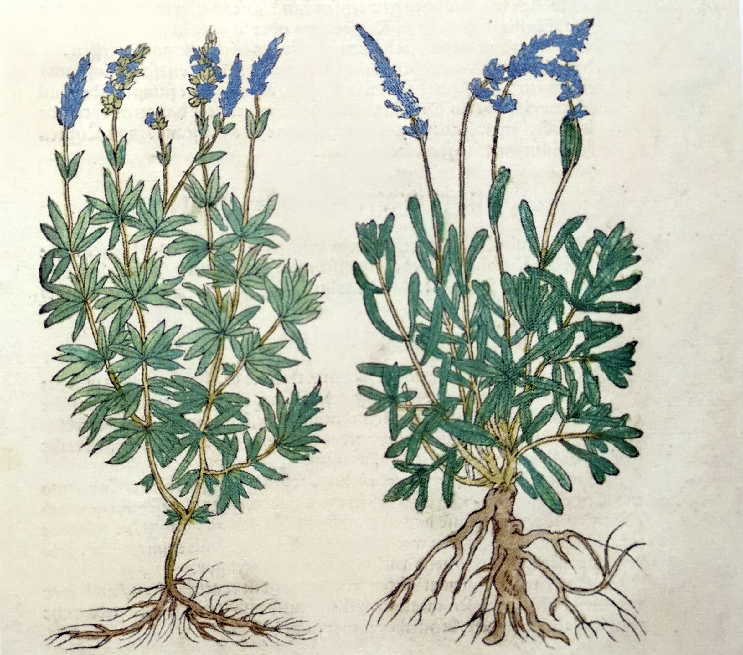 Two Lavandula species - Woodcut from 1546 second edition of Hieronymus Bock's 'Kreuterbuch'